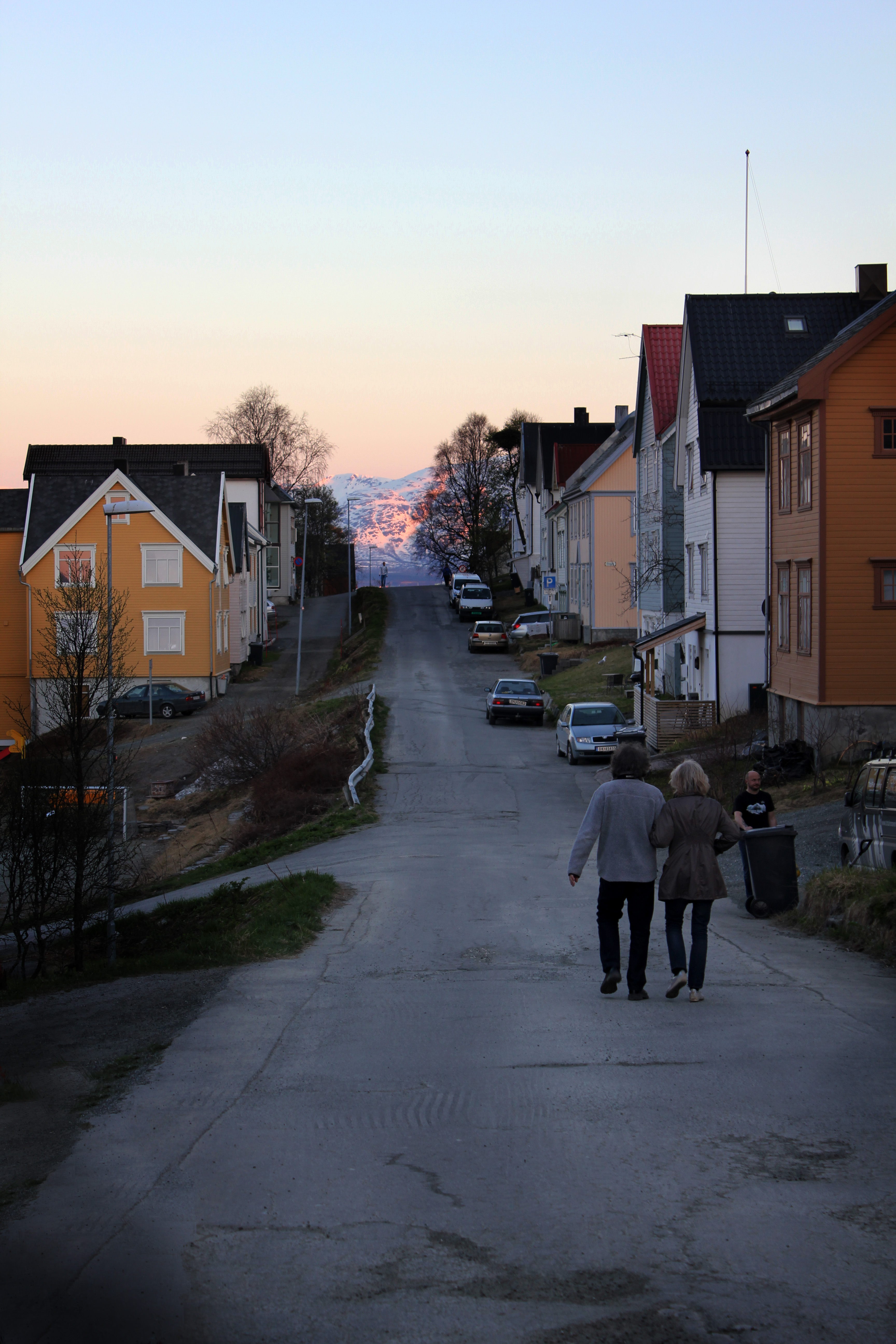 Fogd Dreyers street in Tromsø, Northern Norway seen from the north during Midnight sun